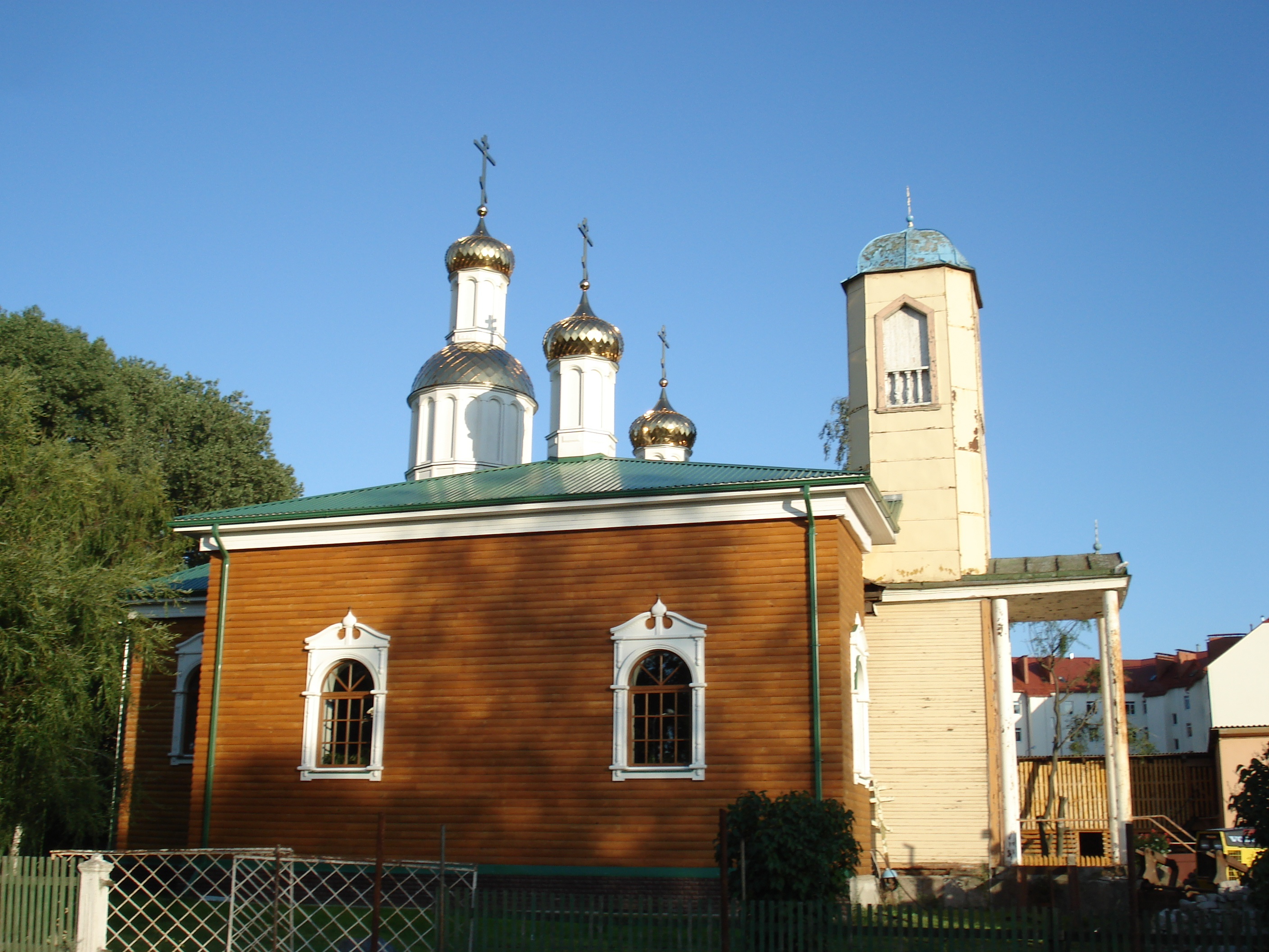 Daugavpils Ss Peter and Paul Orthodox Church in Stary Forshtadt (Vecā Forštate)